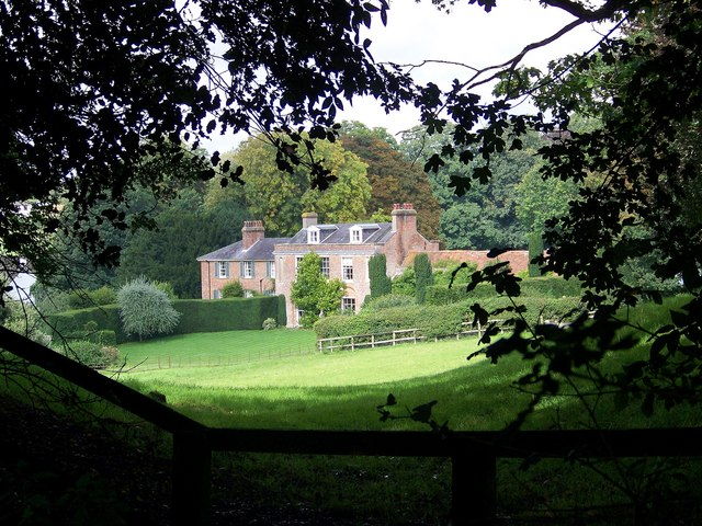 The Glebe House, Whitsbury Taken from the churchyard of St Leonards Church.